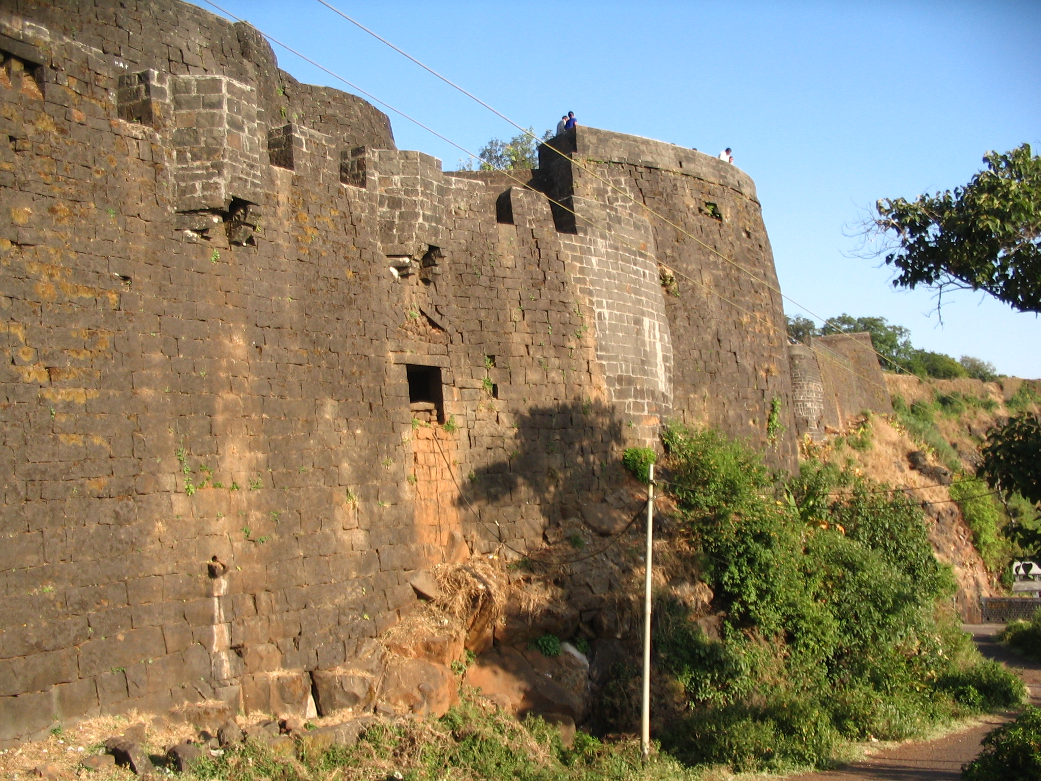 tatbandi fortifications, panhala